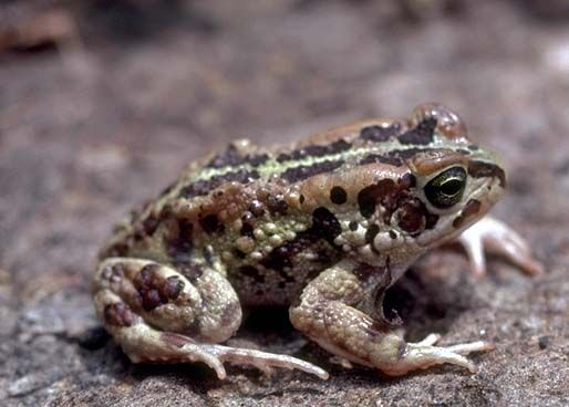 A picture of the amietophrynus buchneri.